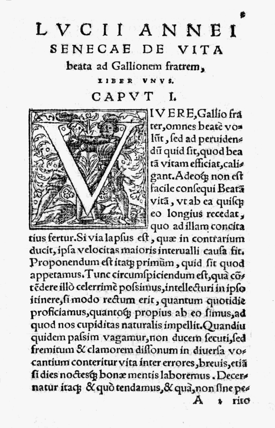 Page 3 of L. Annei Senecae: de Vita Beata. (1543). Published by Antonio Constantino.